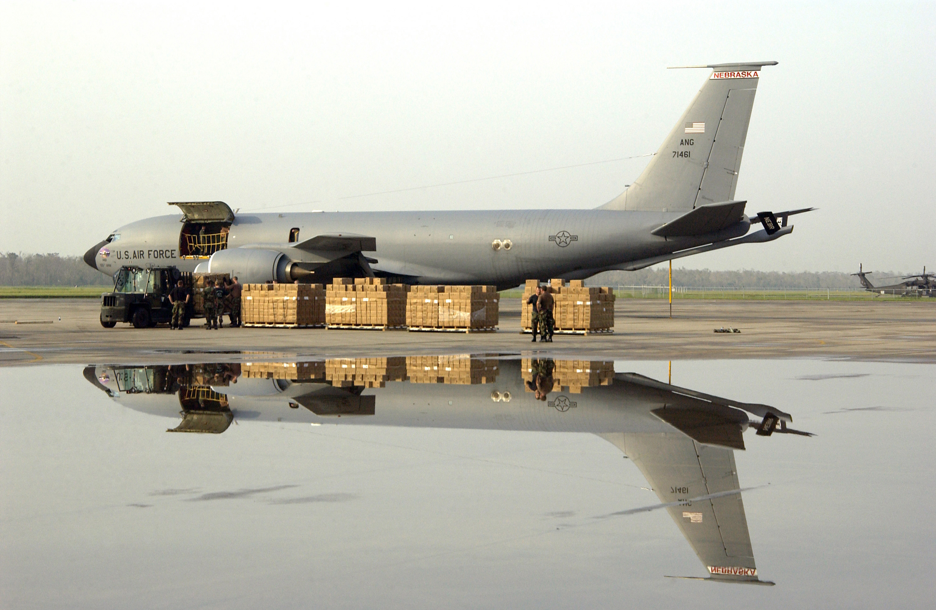 A U.S. Air Force Palletized "Meals Ready to Eat" (MREs) sit in front of a Boeing KC-135R Stratotanker (s/n 57-1461) from the 173rd Air Refueling Squadron, 155th Air Refueling Wing, Nebraska Air National Guard, waiting to be loaded onto a flatbed trailer truck at a visibly damaged and flooded Naval Air Station New Orleans, Louisiana (USA) on 1 September 2005. The 155th ARW flew a two-day relief mission operation from Lincoln, Nebraska, to New Orleans to help deliver 65,000 MREs to assist those devastated by Hurricane Katrina.